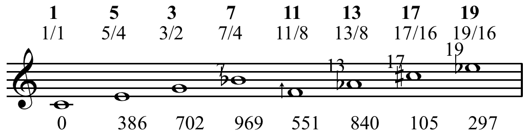 Notation of partials 1, 5, 3, 7, 9, 11, 13, 15, 17, and 19. Cents (approximate) below.